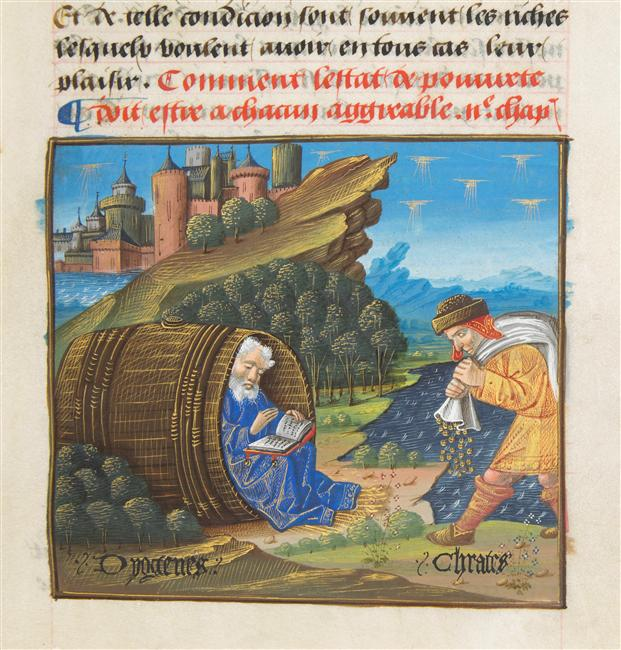 Ms297-folio99recto. Jacobus Magnus, the Book of moralities of Jacques Legrand. "How the state of poverty is agreeable". Diogenes in his barrel and Crates of Thebes who gives up wealth for virtue.